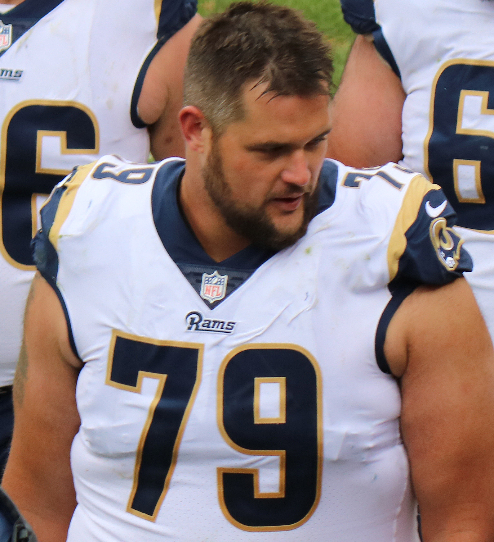 Rob Havenstein, a National Football League player.